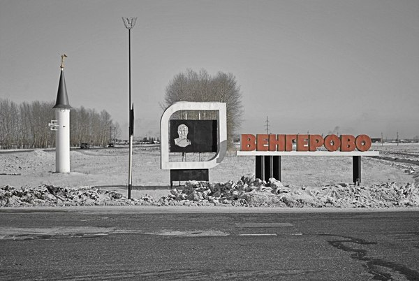 Vengerovo. Sign.